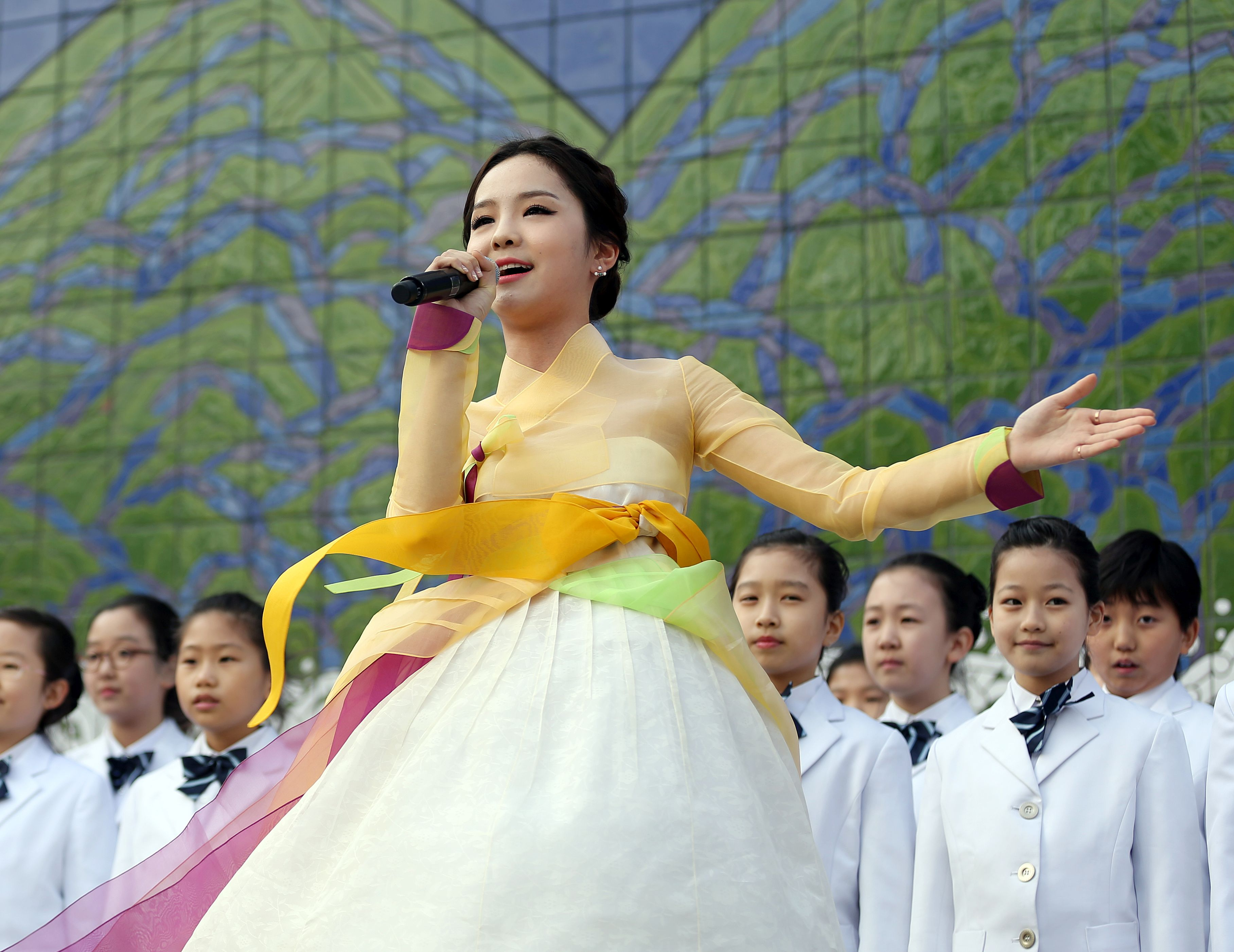 Gugak singer Song So-Hee performing "Arirang"